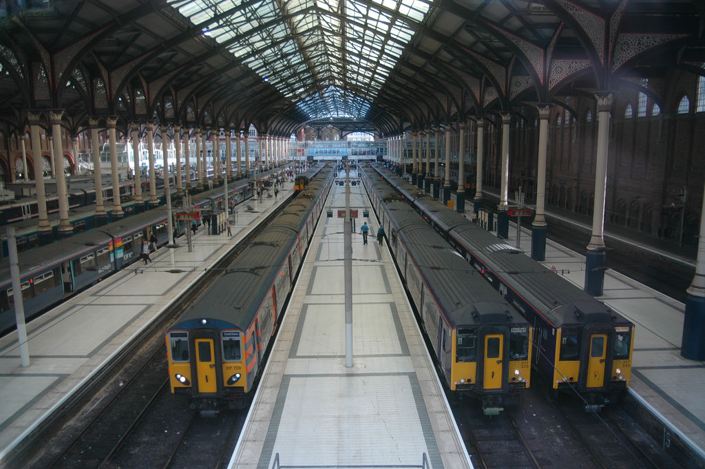 View of Liverpool Street Station platforms taken from Exchange Square.